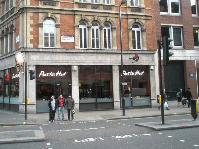 The site of the famous bookshop, one of London's most famous addresses:84 Charing Cross Road. At the time, a branch of "Pasta Hut".